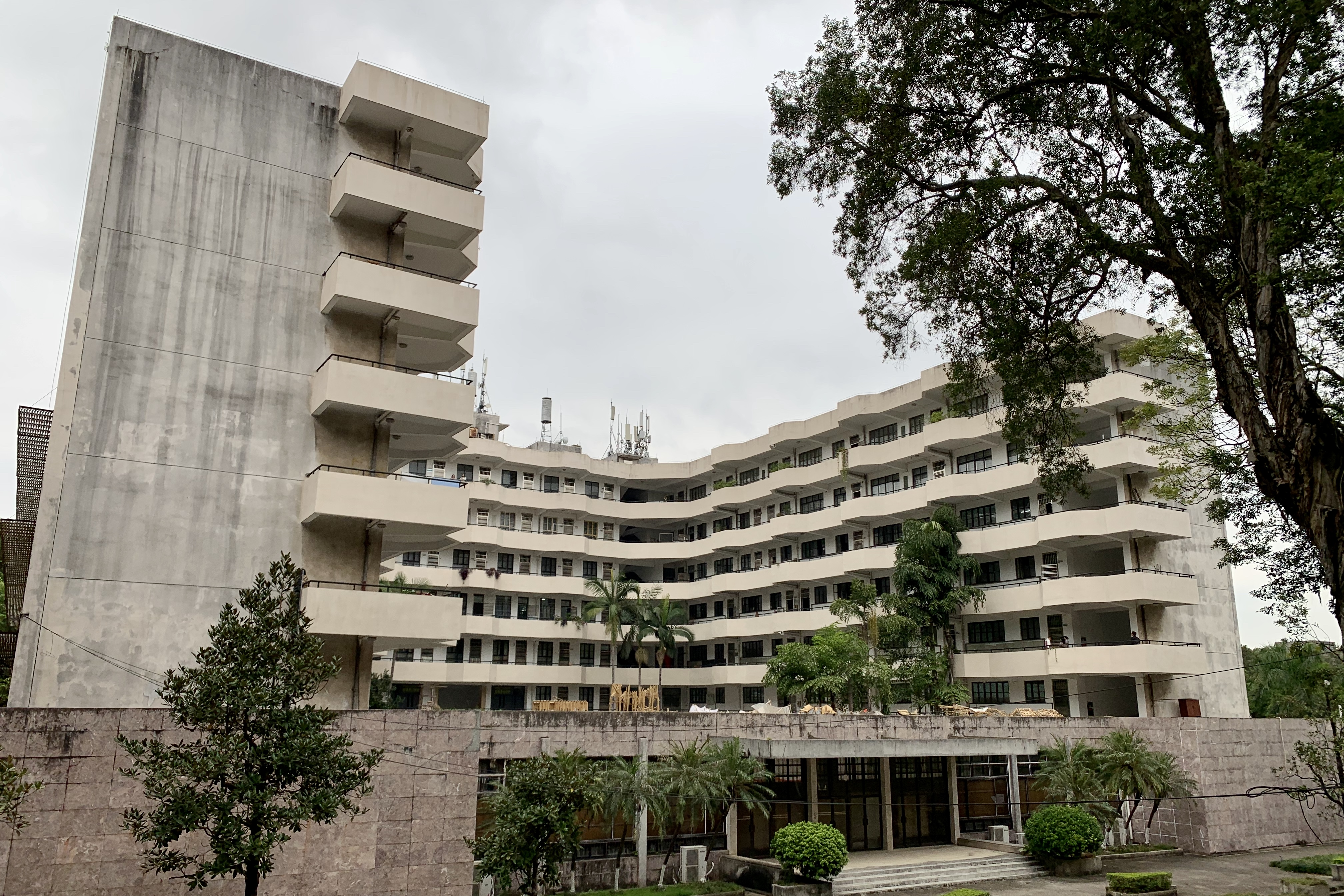 East side of Building No.27 in South China University of Technology Wushan Campus (North Campus). Offices and laboratories for School of Architecture.